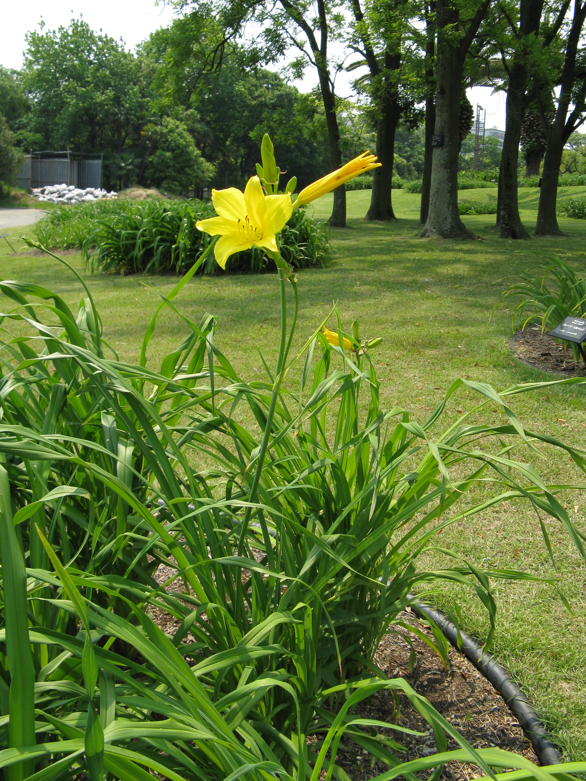 Scientific name Hemerocallis thunbergii